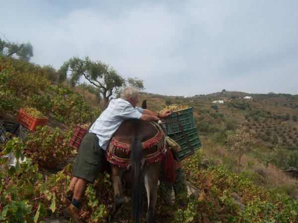 Viticulture in Árchez, Spain